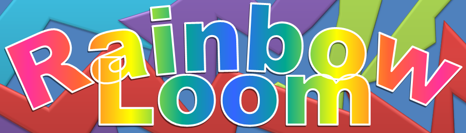 Rainbow Loom is a Rubber Bands kit to do bracelet